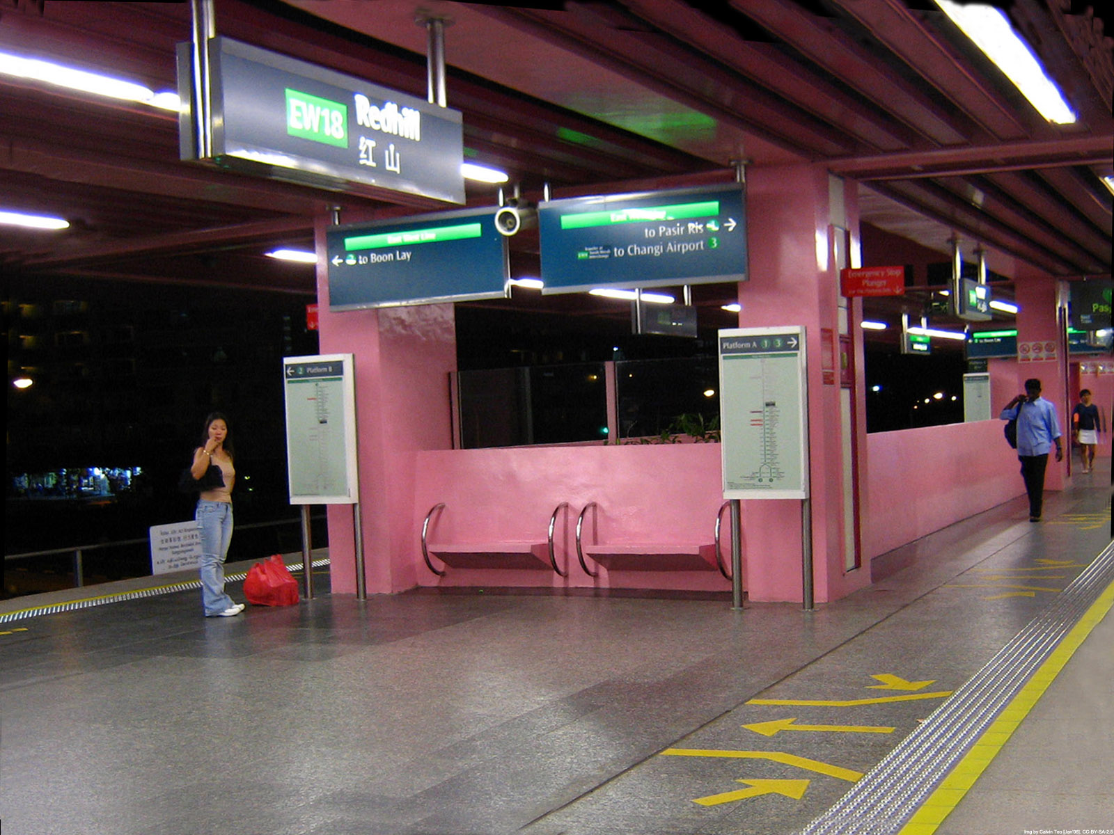 Platform of Redhill Station (EW18) on the East West Line in Singapore Img by Calvin Teo, in Jan 06